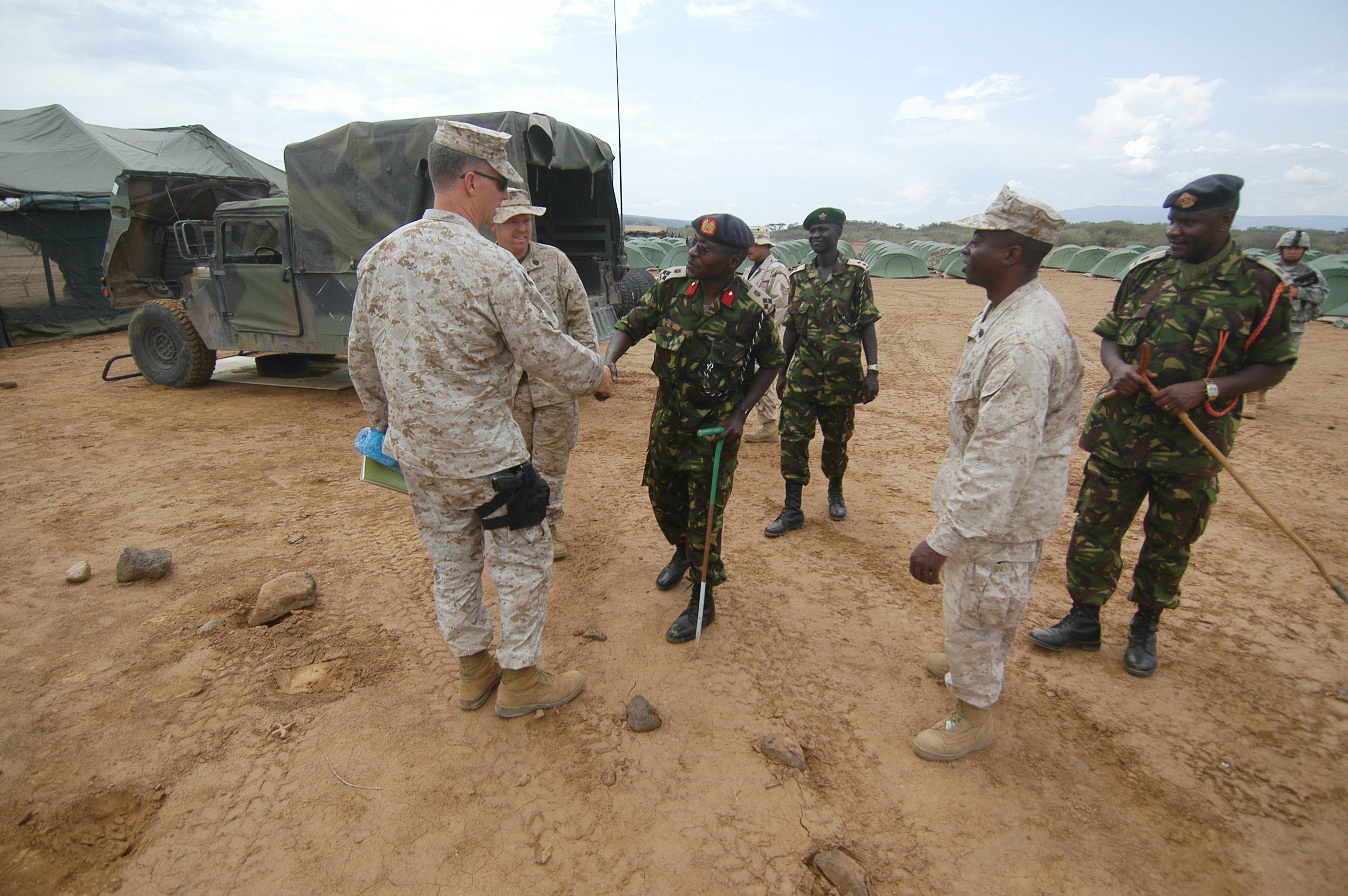 Nginyang, Kenya (Aug. 6, 2006) - Kenyan Army Brig. Gen. and Natural Fire Commanding Officer, Leonard Ngondi (third from left) greets U.S. Marine Lt. Col. Steve Nichols (left) at Camp Lonestar. Natural Fire is the largest combined exercise between Eastern African community nations and the United States. It will include medical, veterinary and engineering civic affairs programs in addition to military exercises. U.S. Navy photo by Mass Communication Specialist 2nd Class Roger S. Duncan (RELEASED)